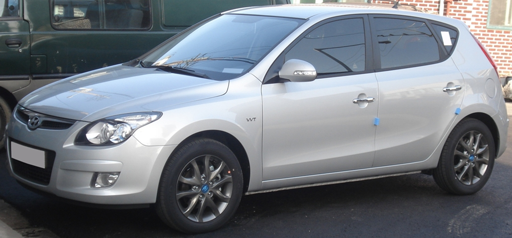 Hyundai i30